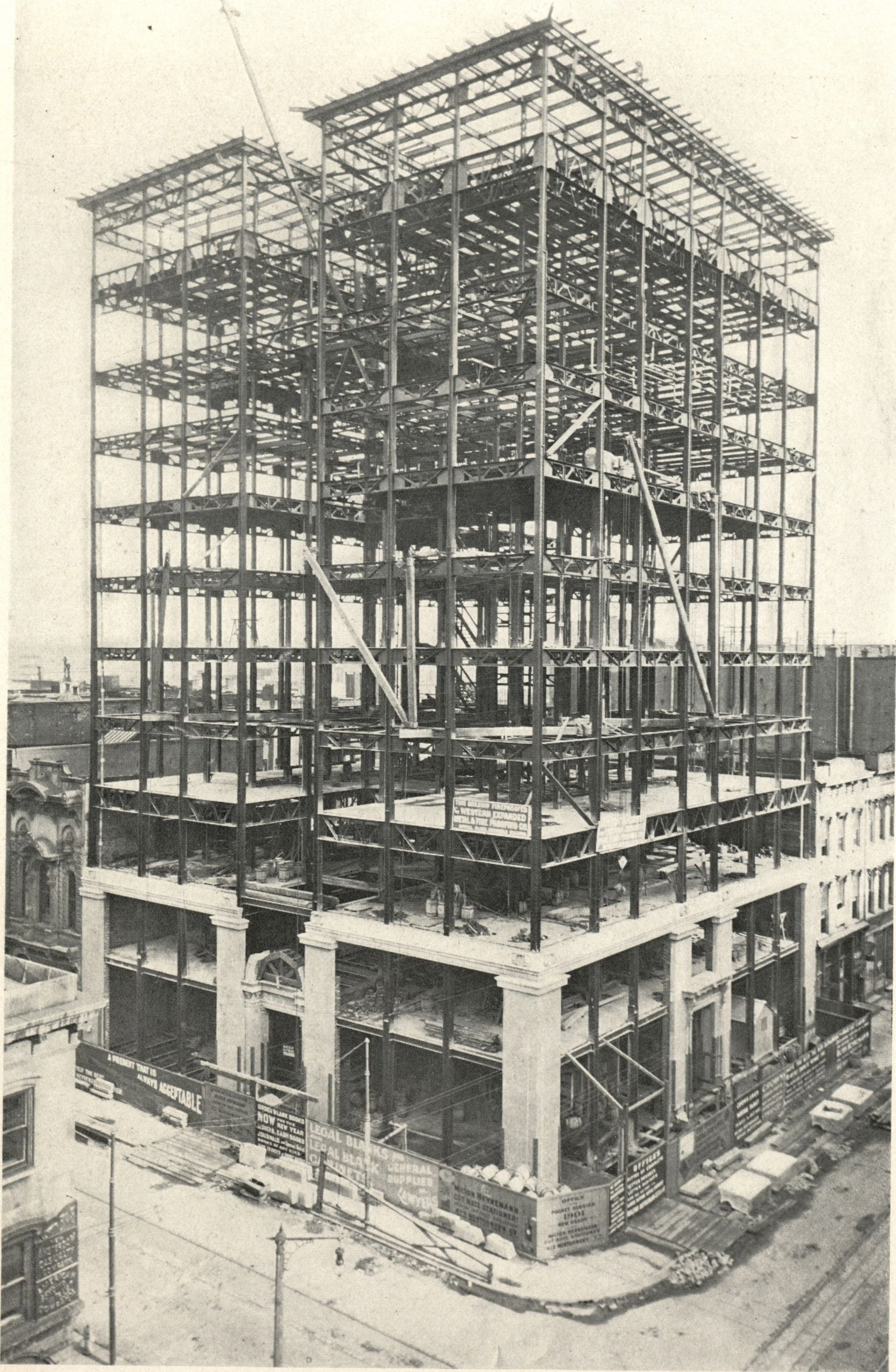 Title: Catalogue of useful information and tables relative to iron, sheet and other products manufactured by Milliken Brothers, arranged for the use of engineers, architects and builders Year: 1901 (1900s) Authors: Milliken Brothers Subjects: structural steel -- catalogs construction equipment -- catalogs Division 05 Division 41 steel column schedule steel beam schedule steel joist schedule structural steel framing structural steel for buildings steel joist framing metal fabrications metal stairs decorative metal cranes and hoists derricks Publisher: Milliken Brothers Text Appearing Before Image: IRON WORK DESIGNED, FURNISHED AND ERECTED BY MILLIKEN BROTHERS. 122 Hayward Building, San Francisco, California. Text Appearing After Image: STEEL work designed, FURNISHED AND ERECTED BY MILLIKEN HROTHKRR. 122 a Waterside Station^ 38TH-39TH Streets and First Avenue, New York City.